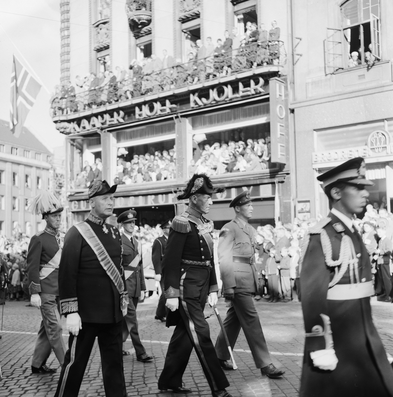 Funeral of Haakon VII of Norway